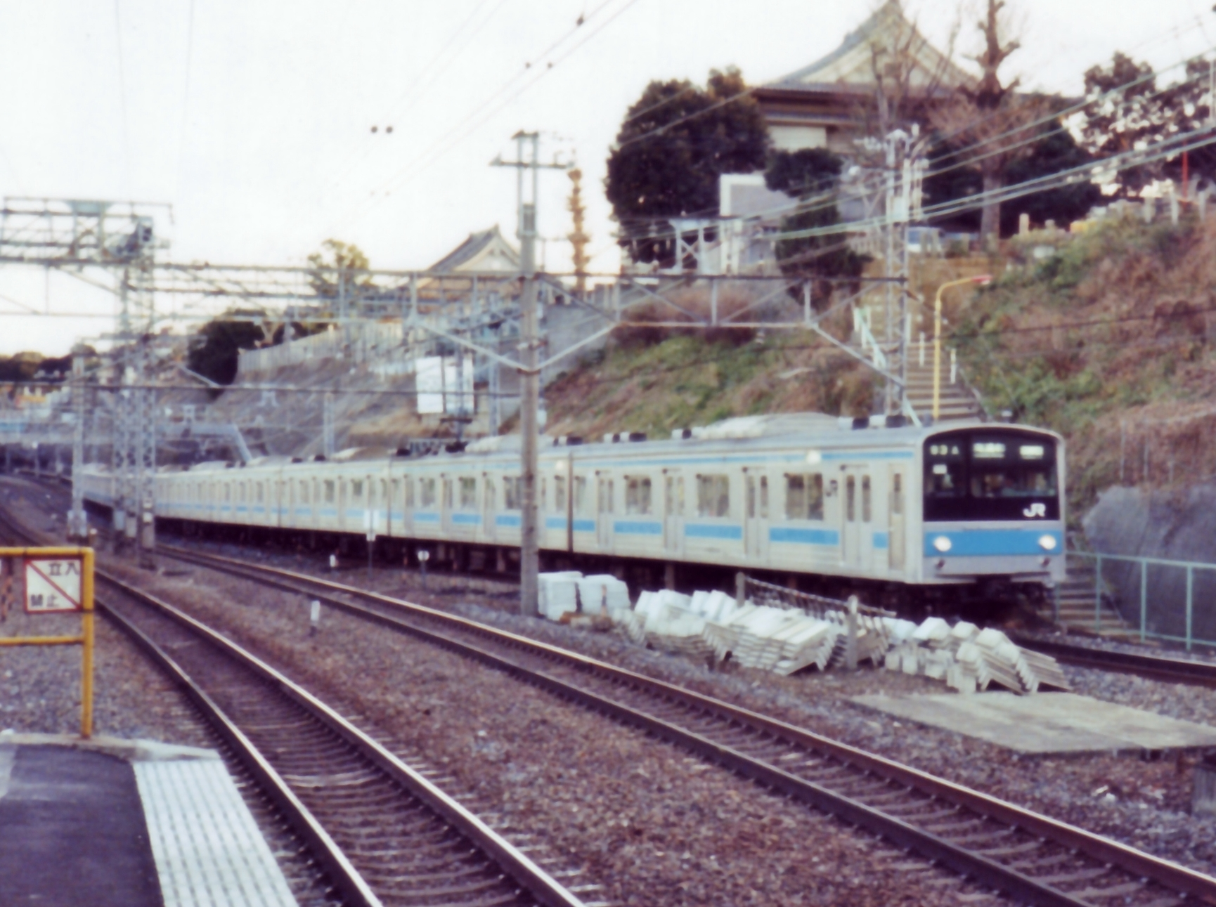 A JR East 205 series EMU approaching Nishi-Nippori Station in Tokyo on a Keihin-Tohoku Line service